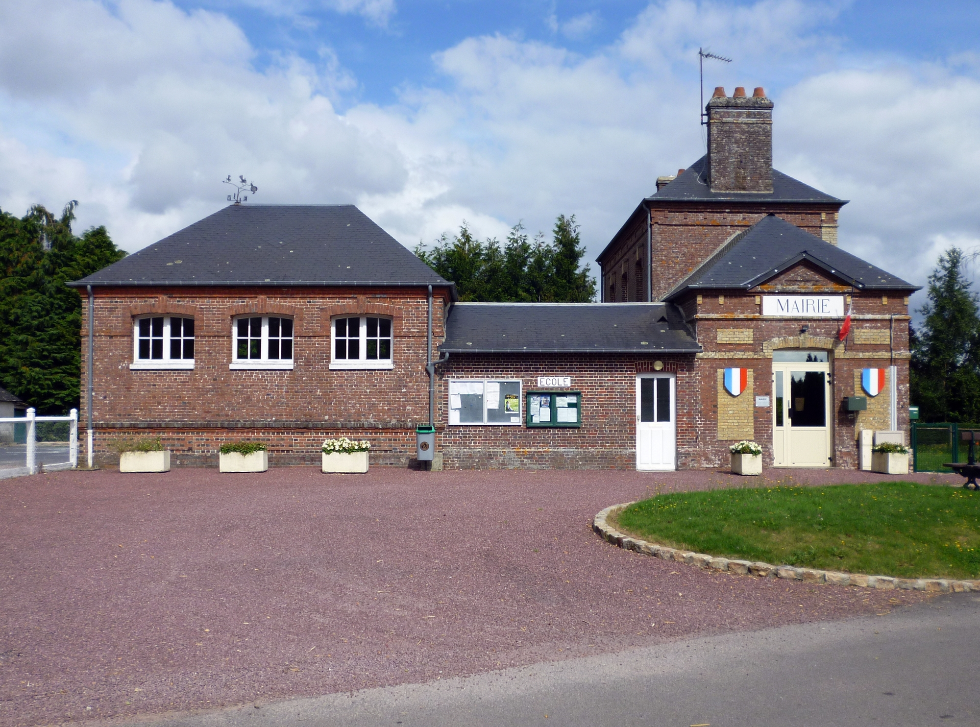 Town hall and village school of Le Favril (Eure, France). It was built from 1892 to 1894.